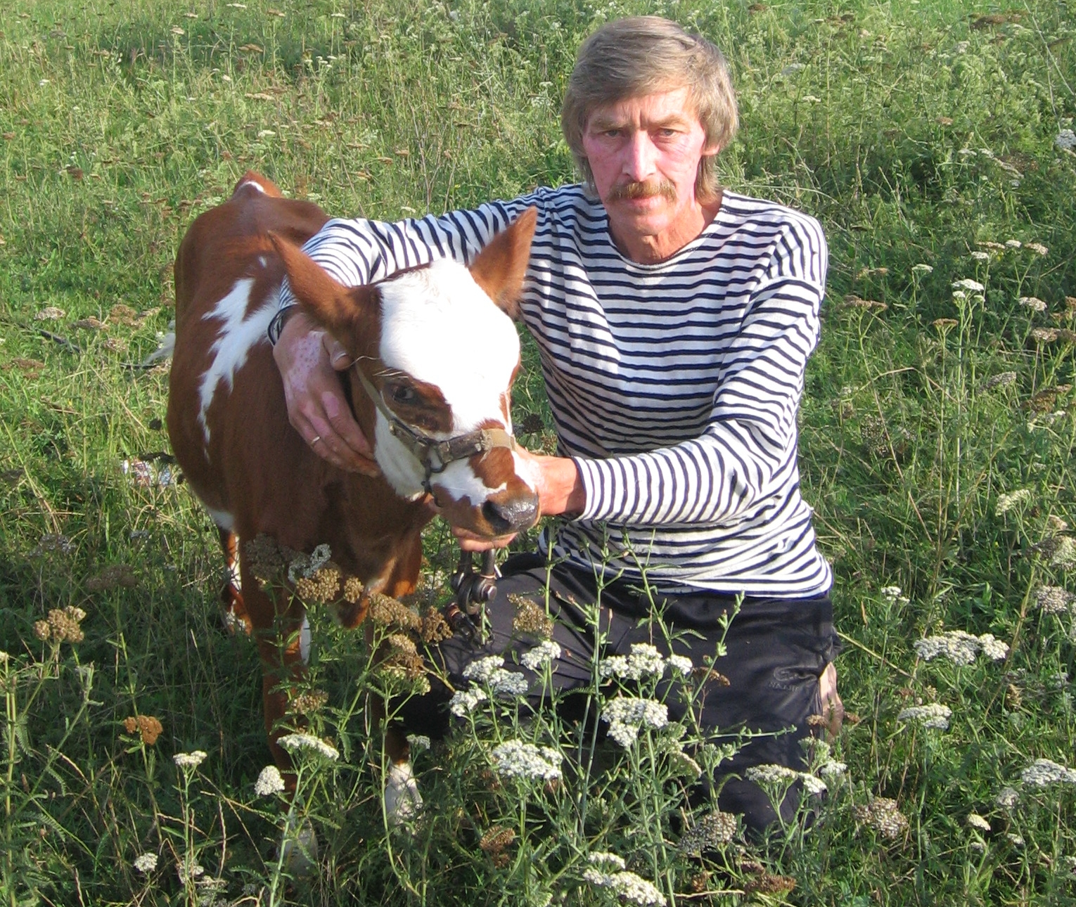 Mikhail Afanasievich Zinar (* 09.05.1951) study composer from the Ukraine